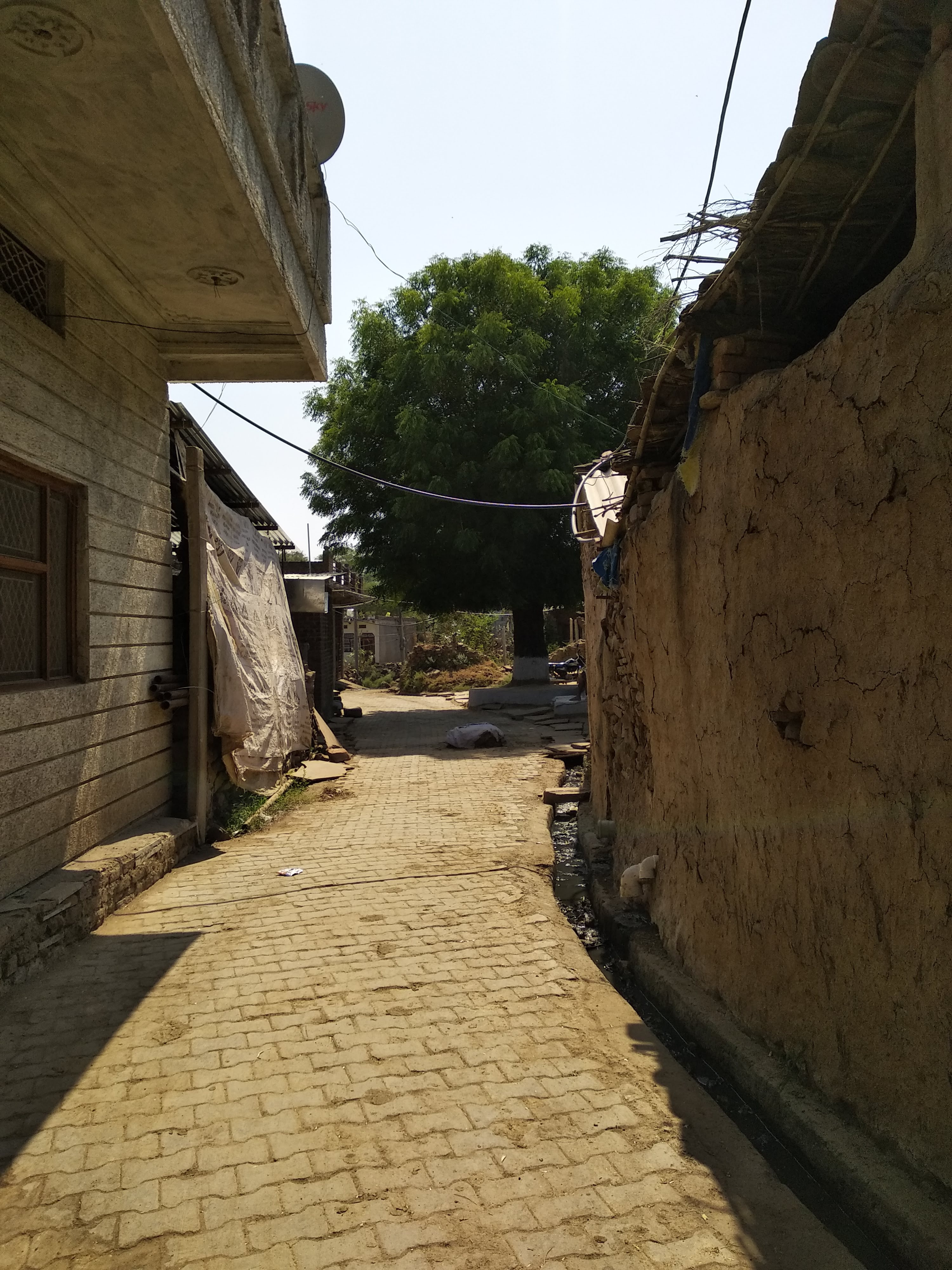 Rural area Biking/Cycling track